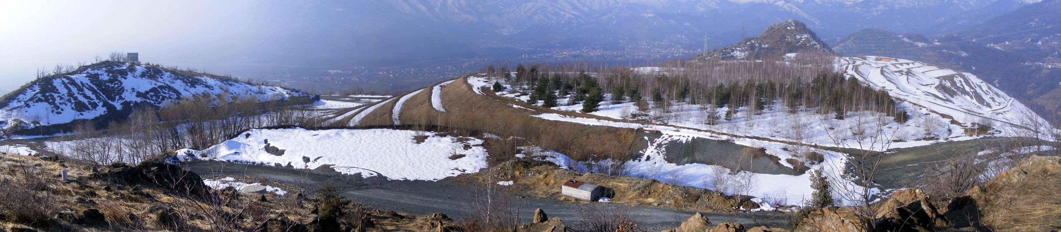 Balangero quarry of asbestos (TO, Italy): panorama from Mount Rolei